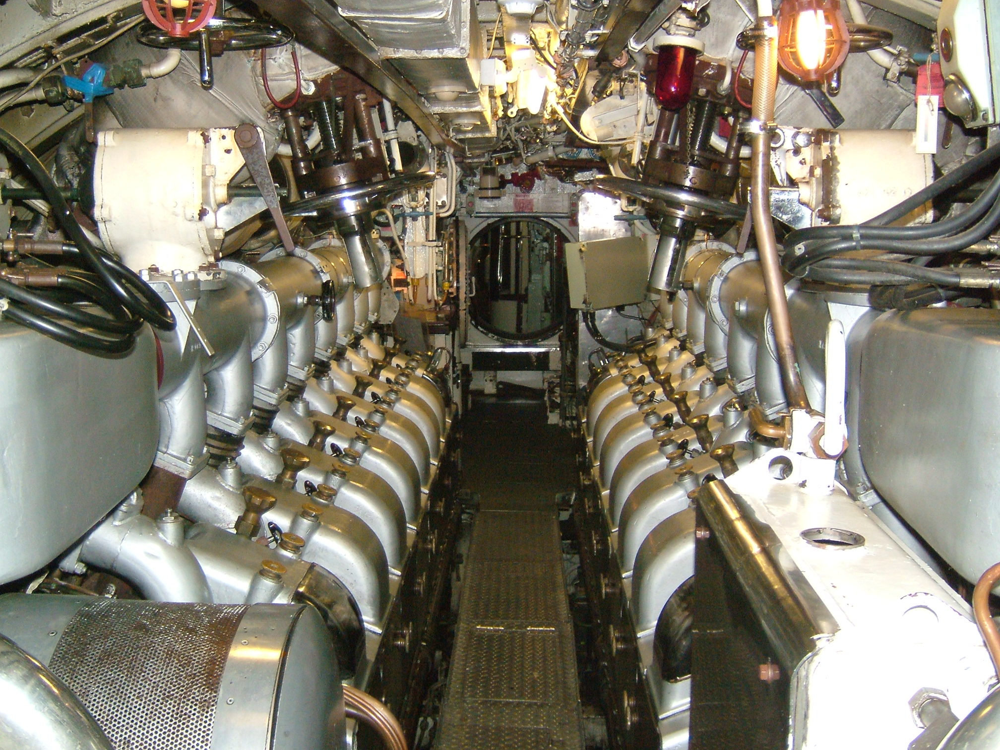 Interior of HMS Ocelot, submarine,museum ship in Chatham Dockyard, Diesel Motors needed to charge the batteries which will silently propel the ship.